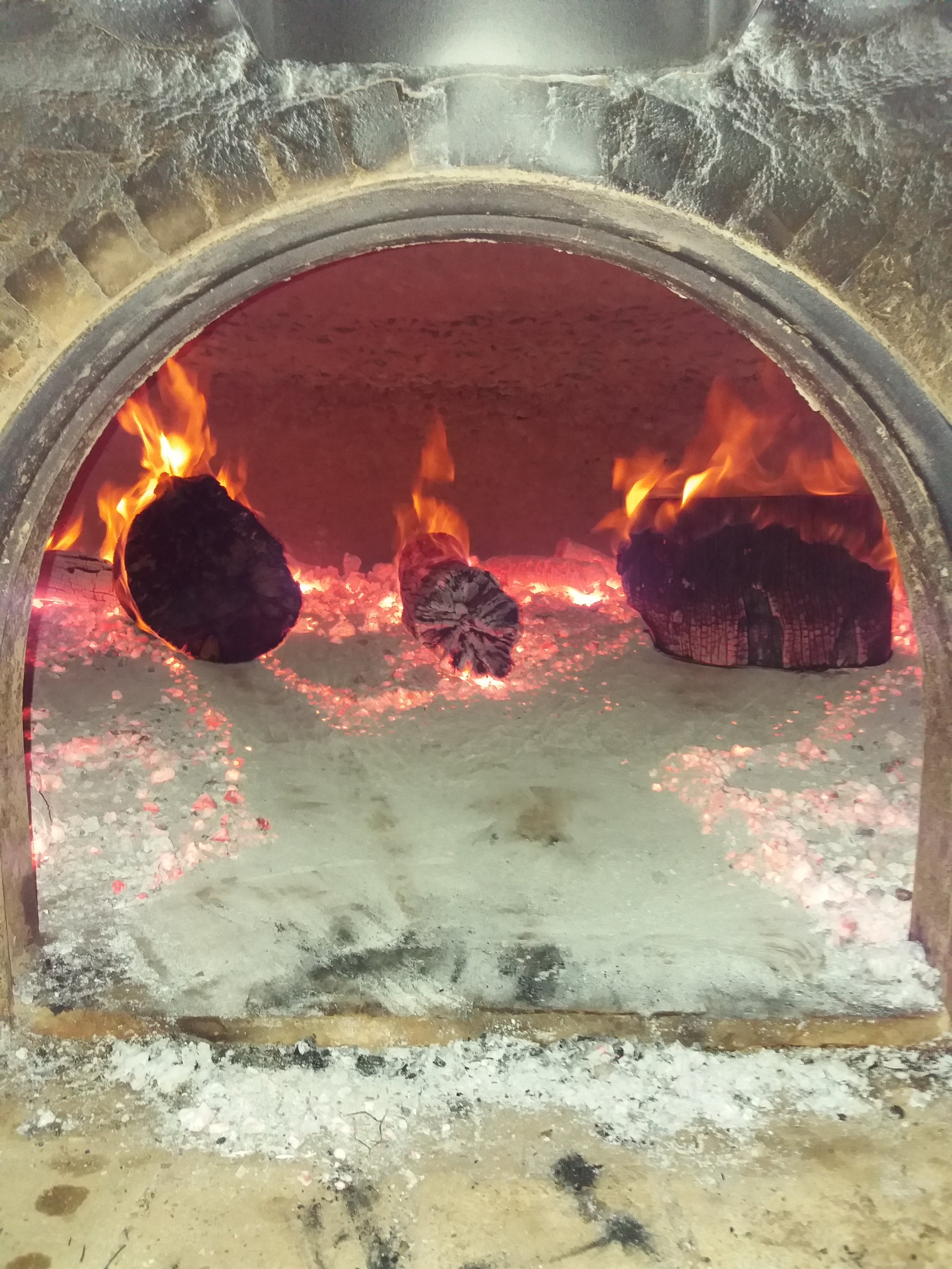 This is a photography of Natura 2000 protected area with ID GR2550006